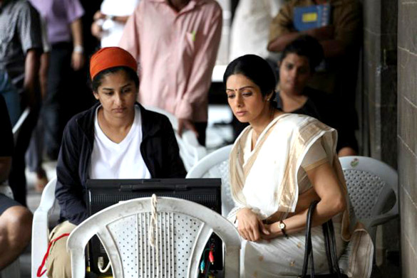 Director Gauri Shinde with actress Sridevi on the sets of the film English Vinglish.